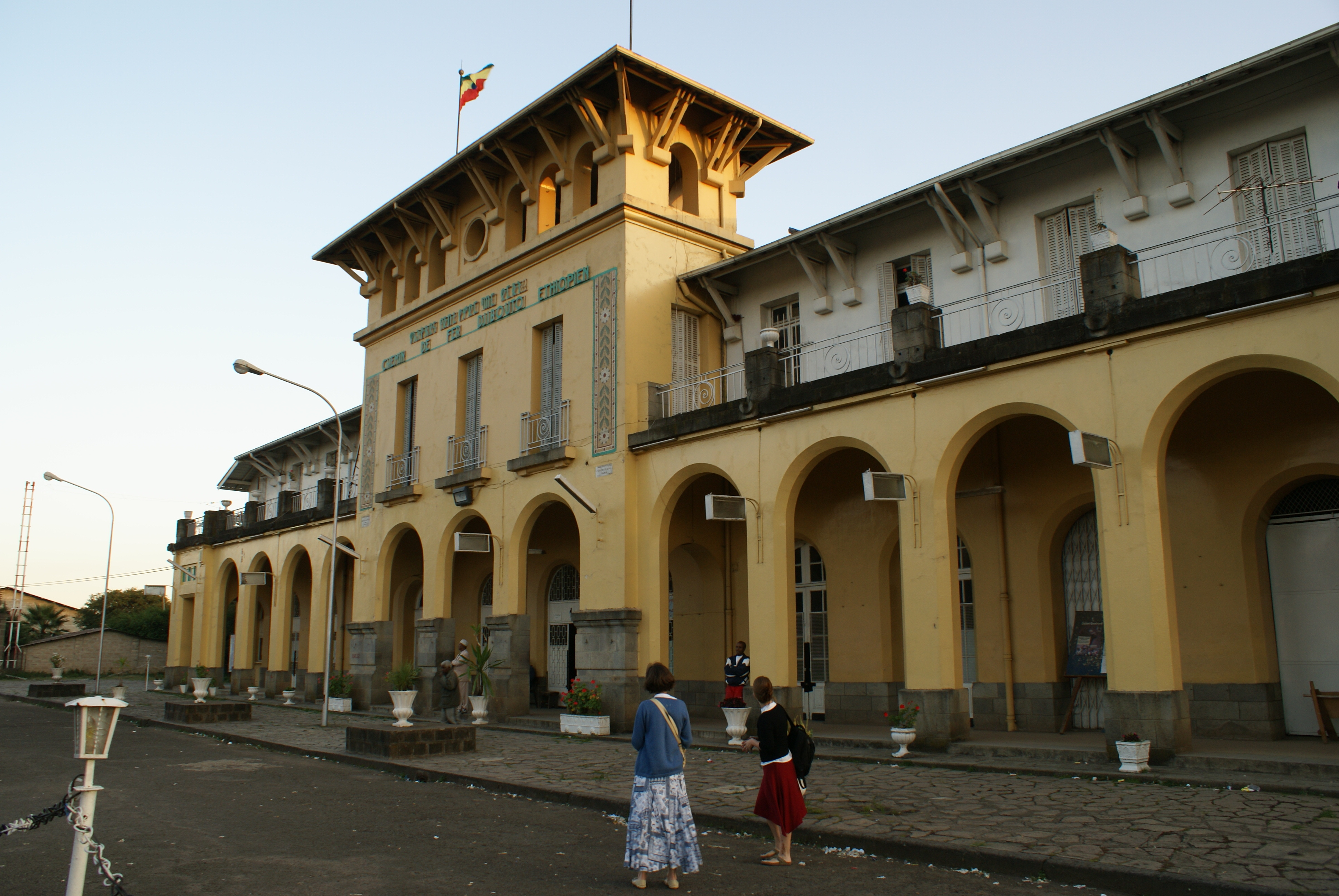 A view of Addis Ababa Railway Station in the early evening.